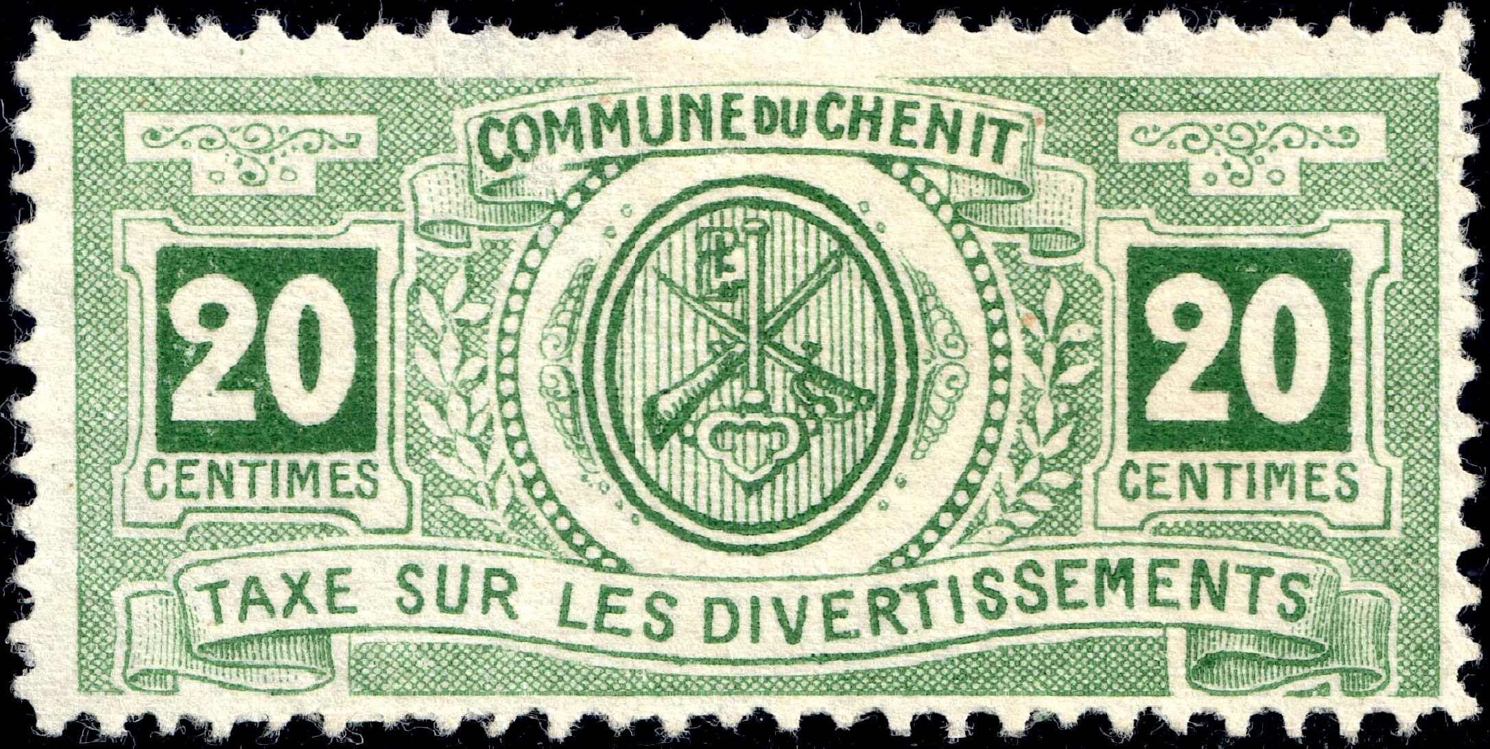 Switzerland Le Chenit unused entertainment tax 20c - 2. Perforated 11.5.